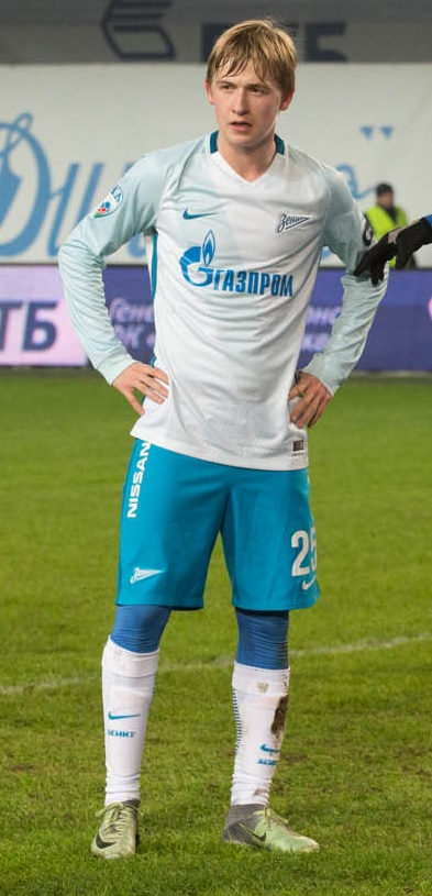 Aleksei Isayev with FC Zenit-2 St. Petersburg in a game against FC Dynamo Moscow.